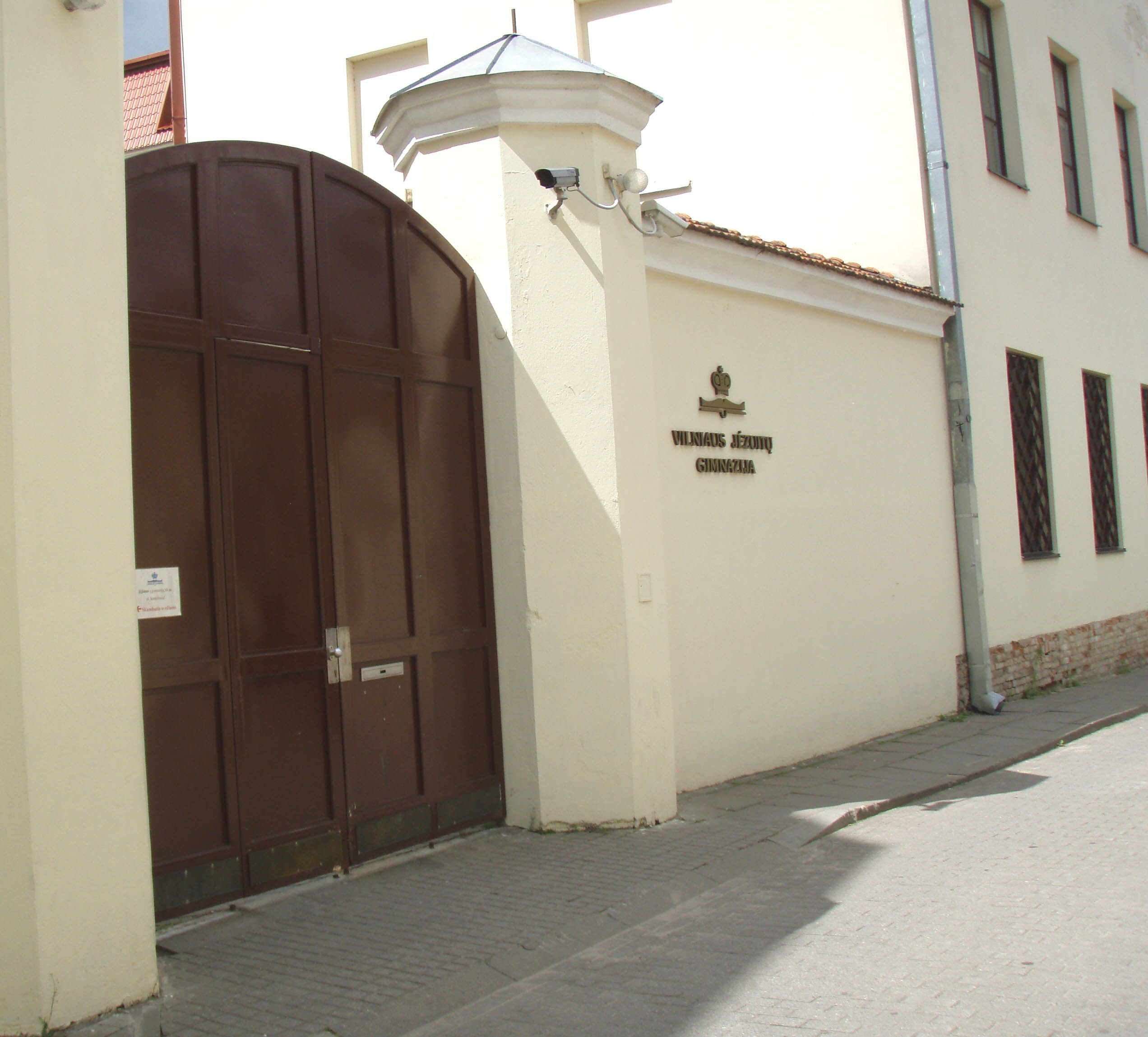 Vilnius society of Jesus gymnasium, Lithuania